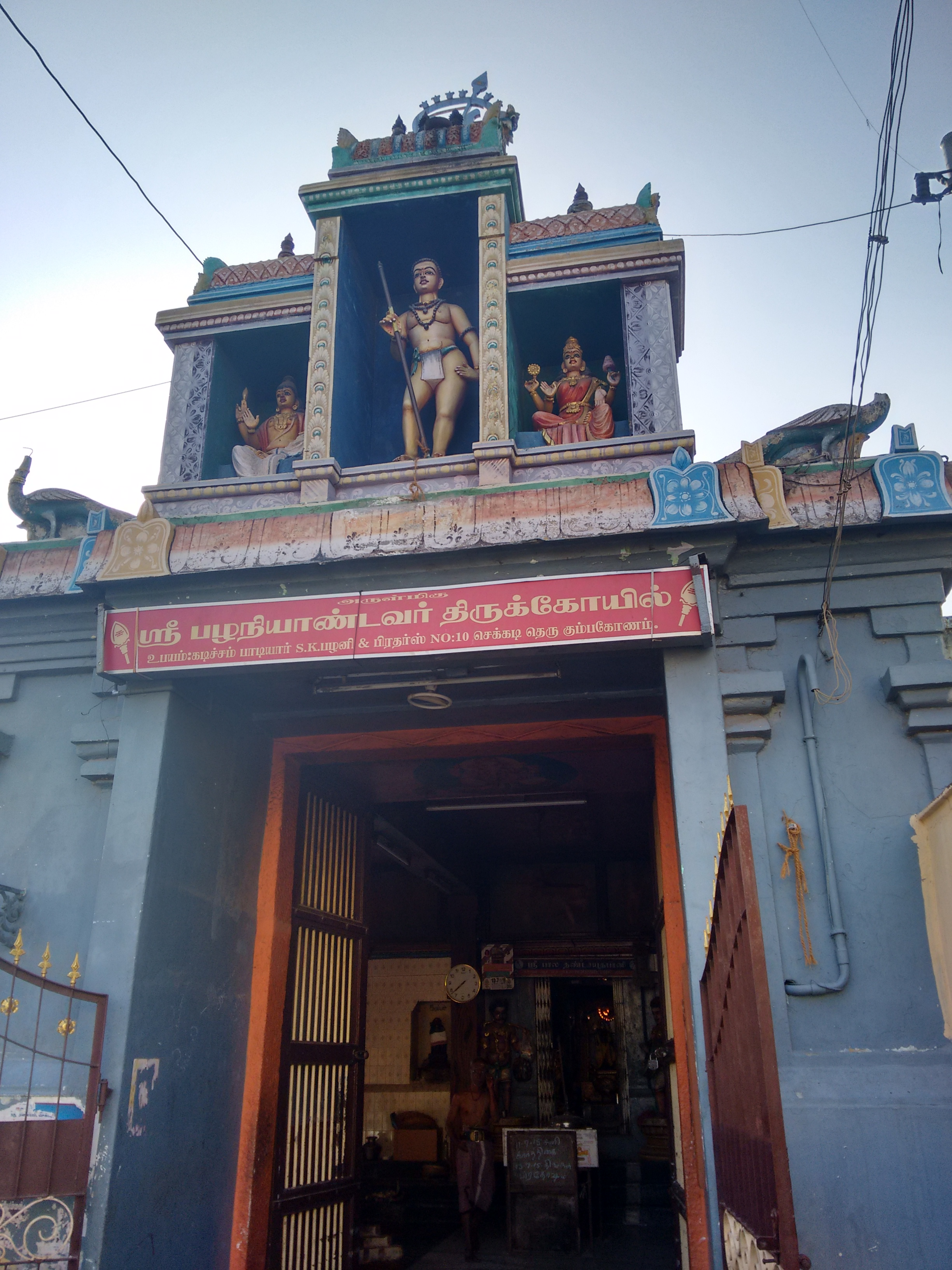 Kumbakonam palaniandavar temple கும்பகோணம் பழனியாண்டவர் கோயில்